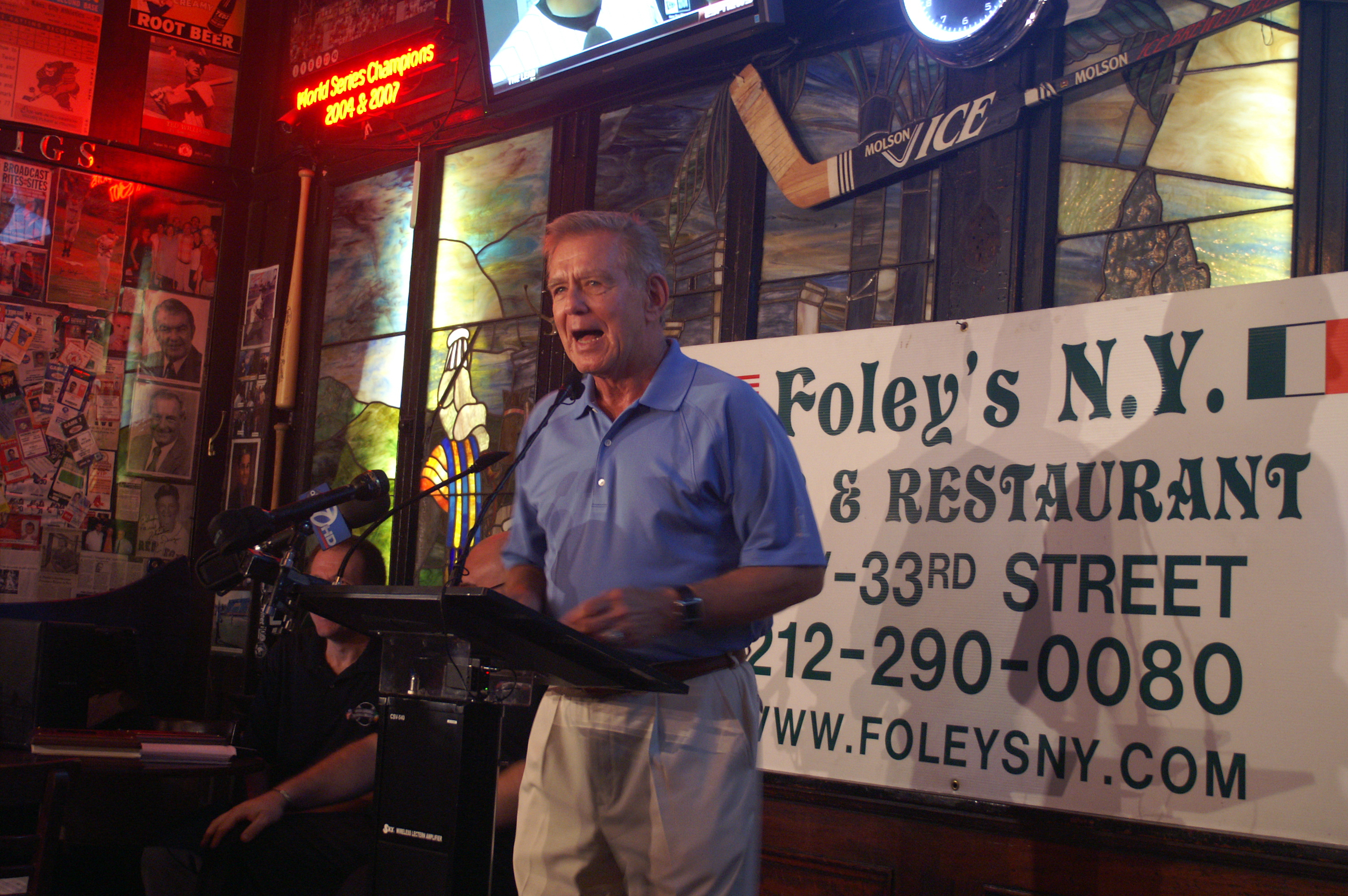 Tim McCarver speaks upon being inducted into the Irish American Baseball Hall of Fame.